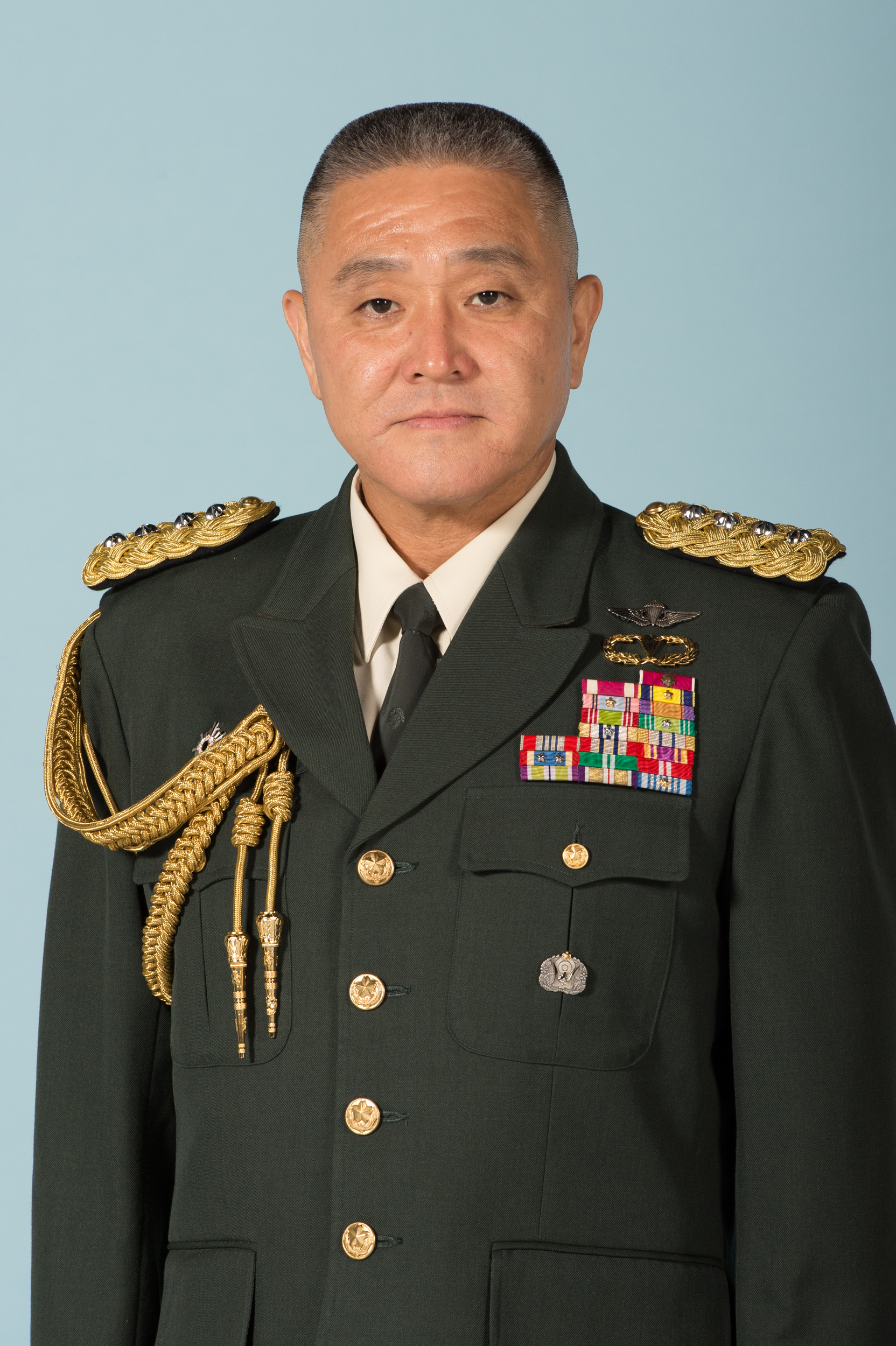 General Toshiya Okabe, 35th Chief of Staff, Japan Ground Self-Defense Force